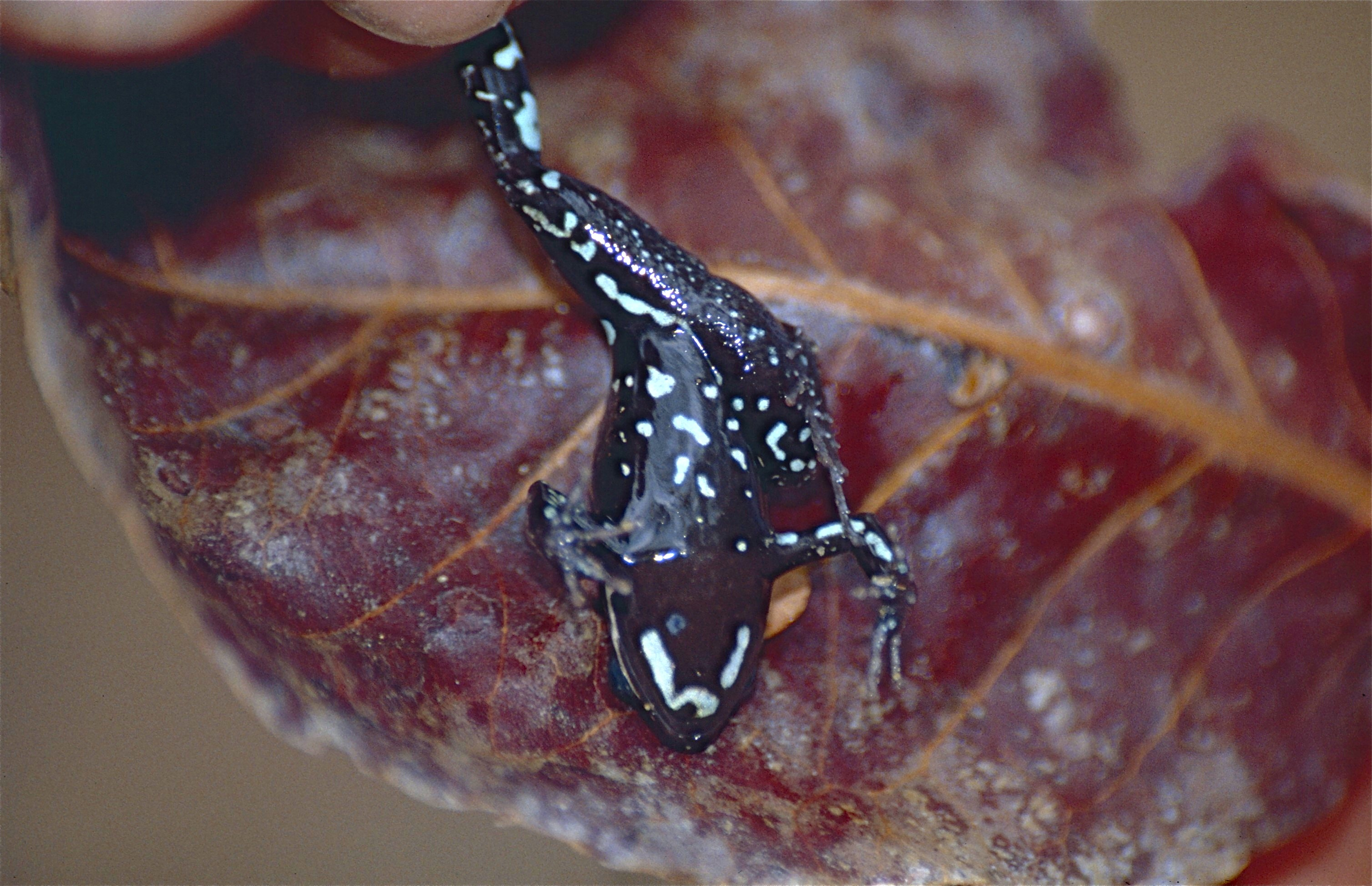 Kirindy Forest, MADAGASCAR Scanned Slide from 1998